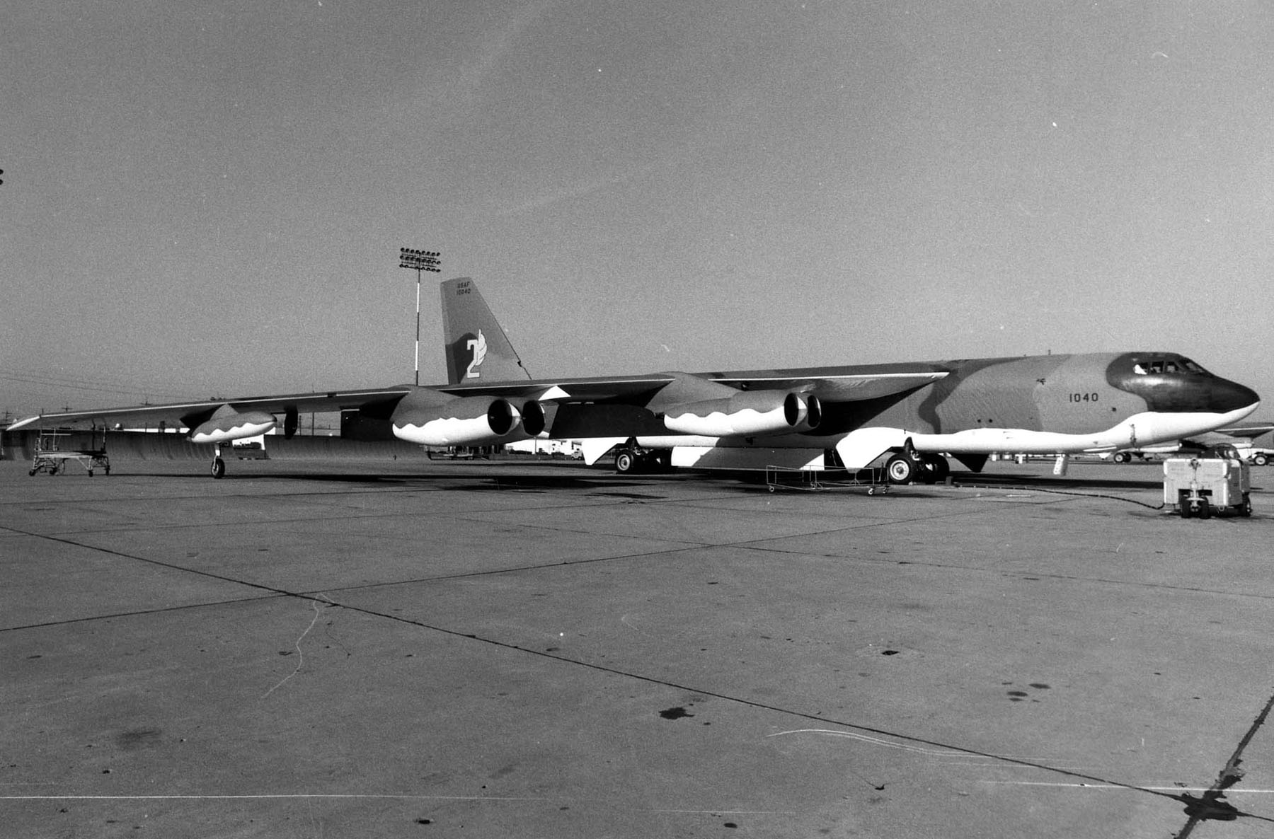 Boeing B-52H-175-BW (SN 61-0040) This was the last B-52 built